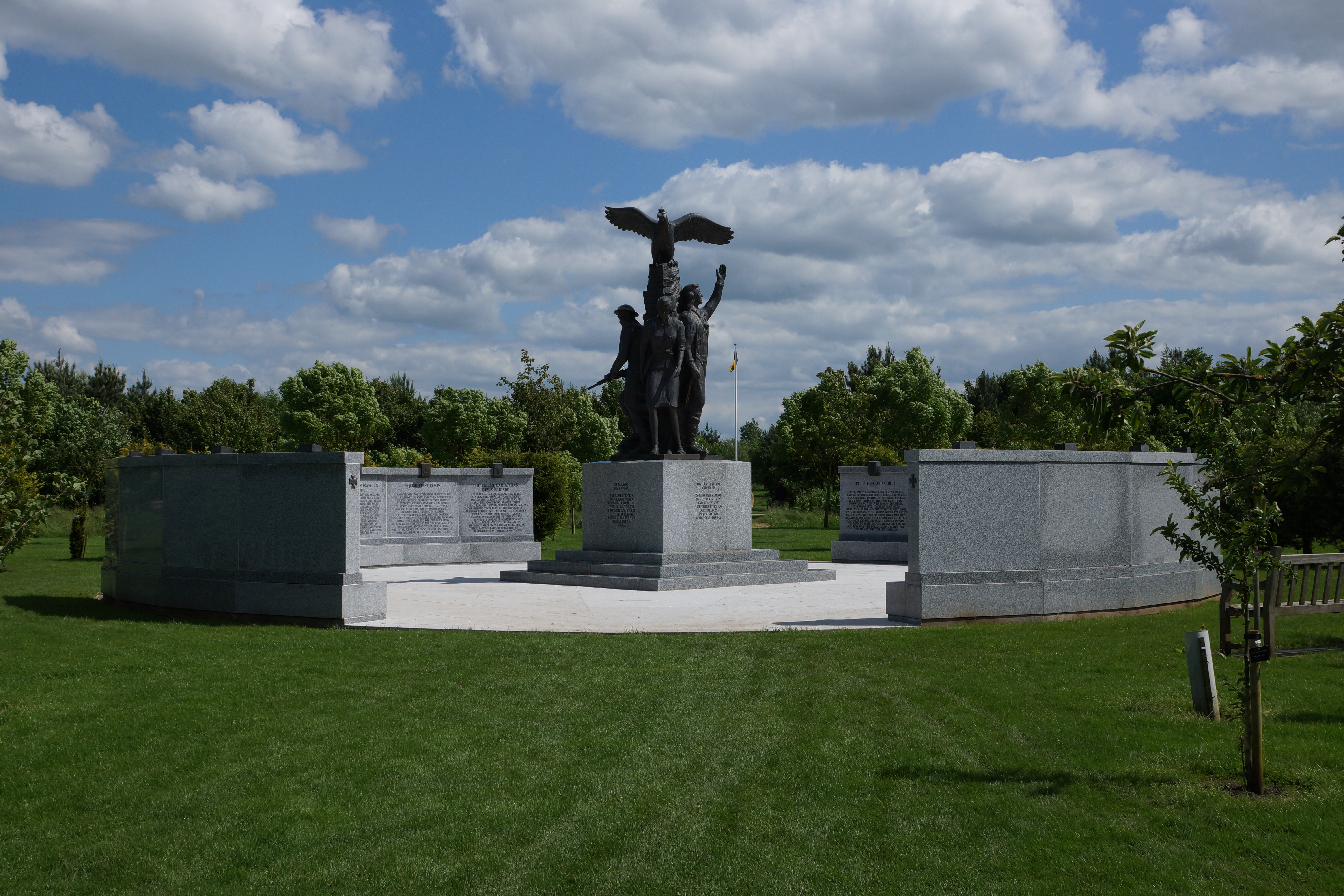 Polish Armed Forces War Memorial at the National Memorial Arboretum, Alrewas, Staffordshire, England.